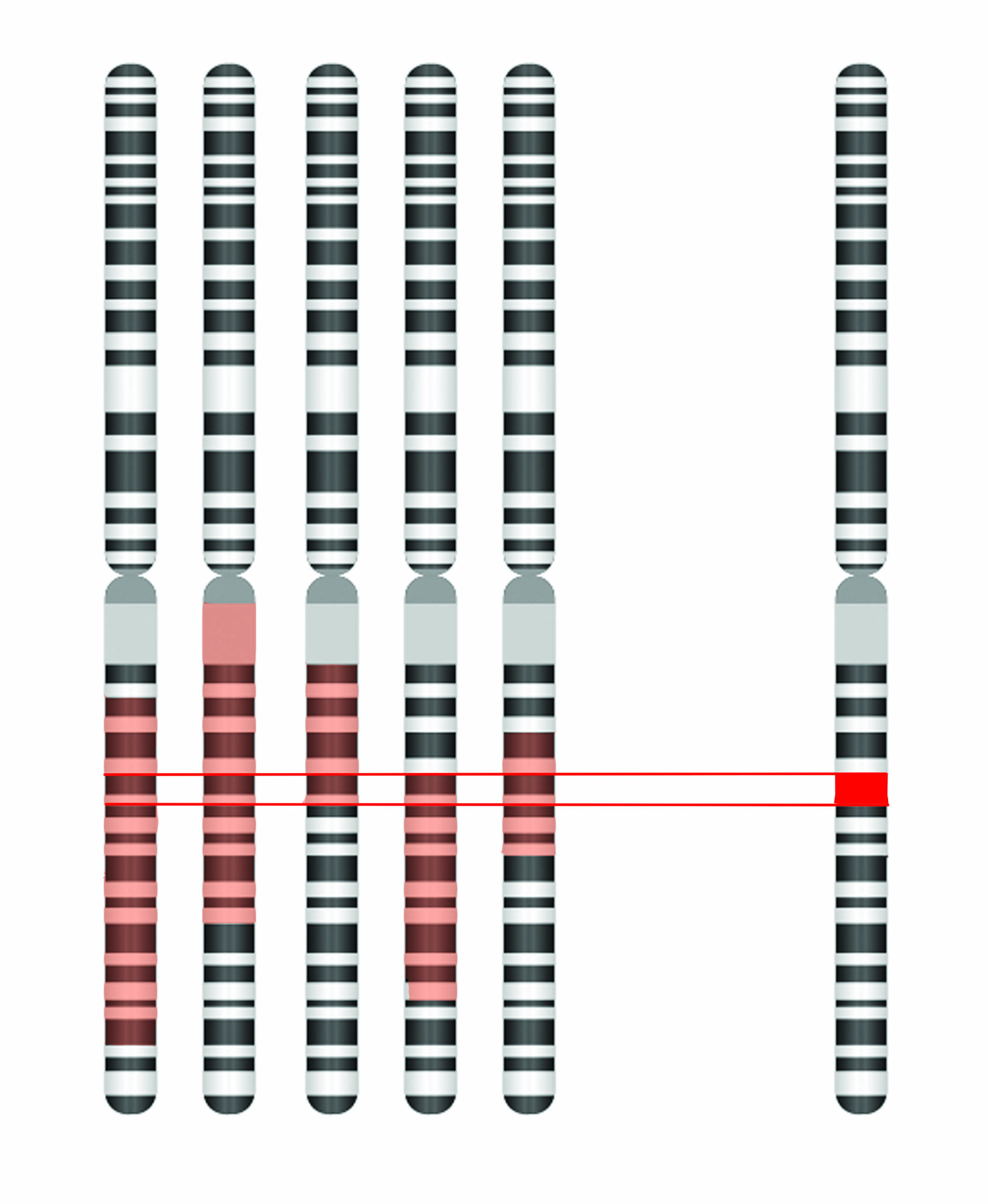 Description of the general procedure used to identify a disease gene. Regions of the genome (highlighted in red) that could theoretically harbor the disease gene are identified in many affected individuals. Any area where these regions overlap has a high probability of containing the disease gene of interest.